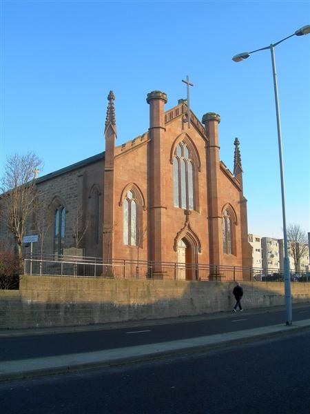 St Margaret's Cathedral, Ayr An elegant building located in John Street, on the north-east side of the inner ring road.